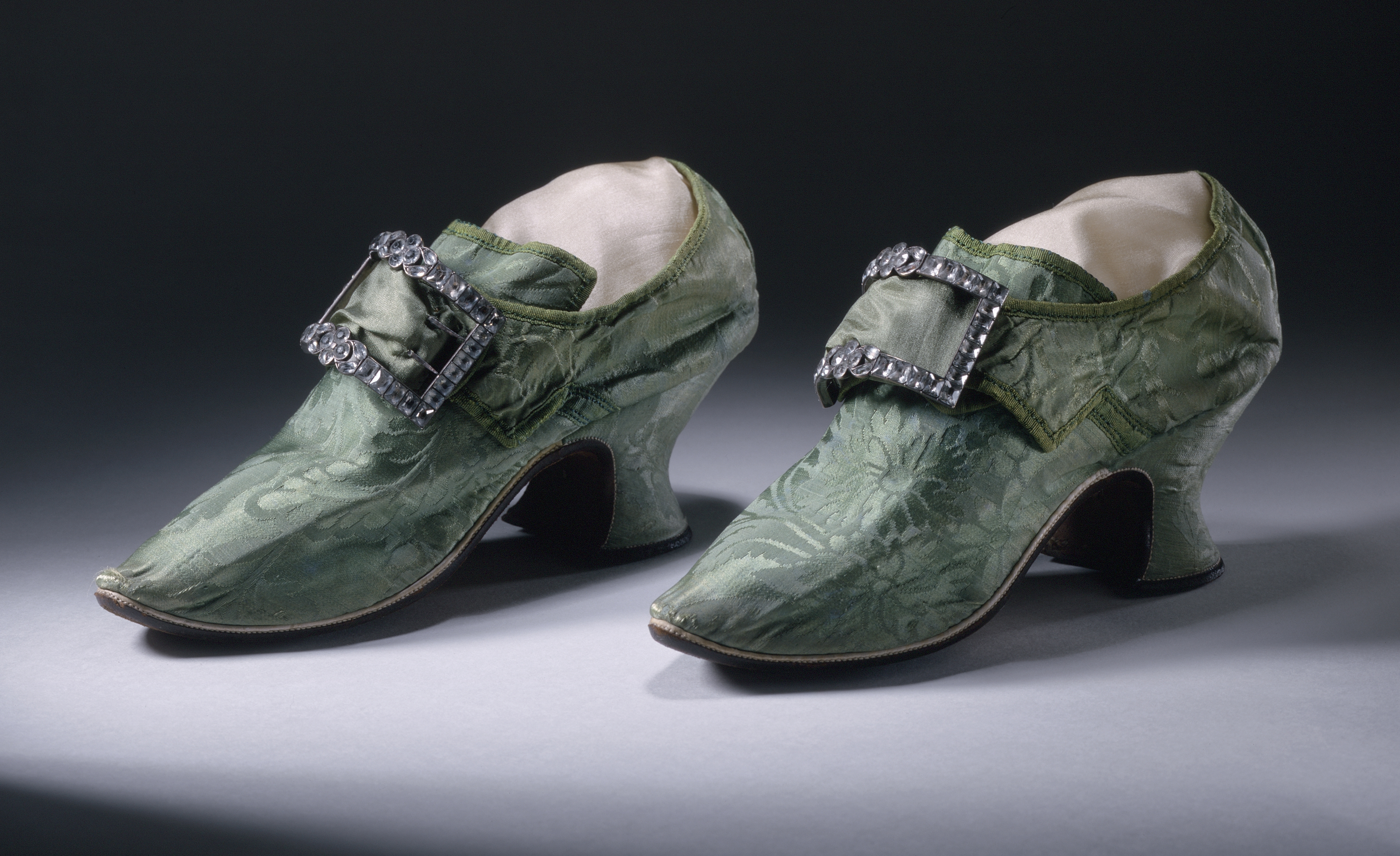 Pair of woman's silk damask shoes with buckles, 1740-1750. London, England, Spitalfields.